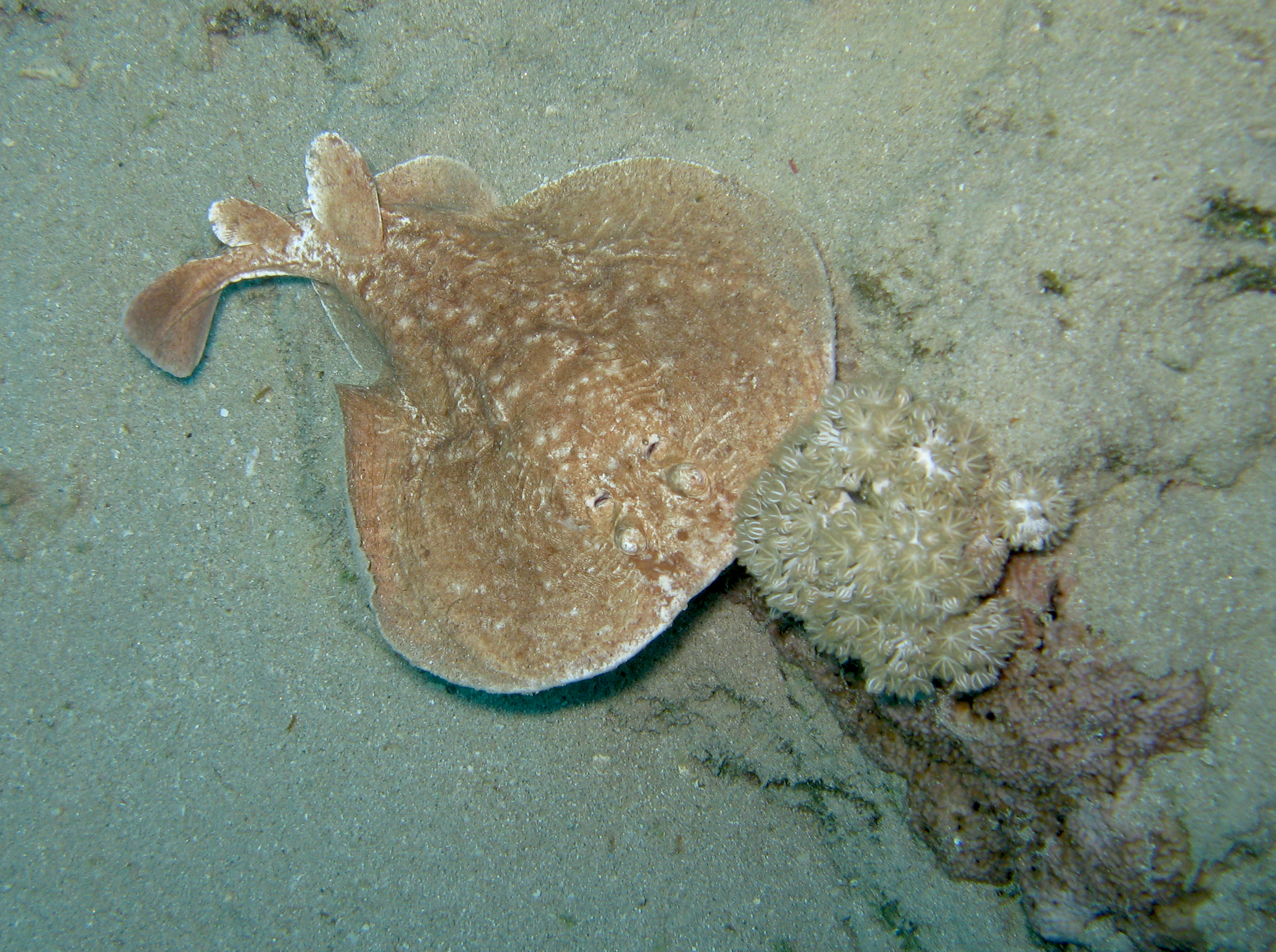 Scalloped torpedo ray (Torpedo panthera) in the Red Sea